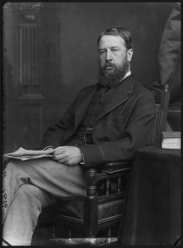 Portait of Spencer Cavendish, 8th Duke of Devonshire